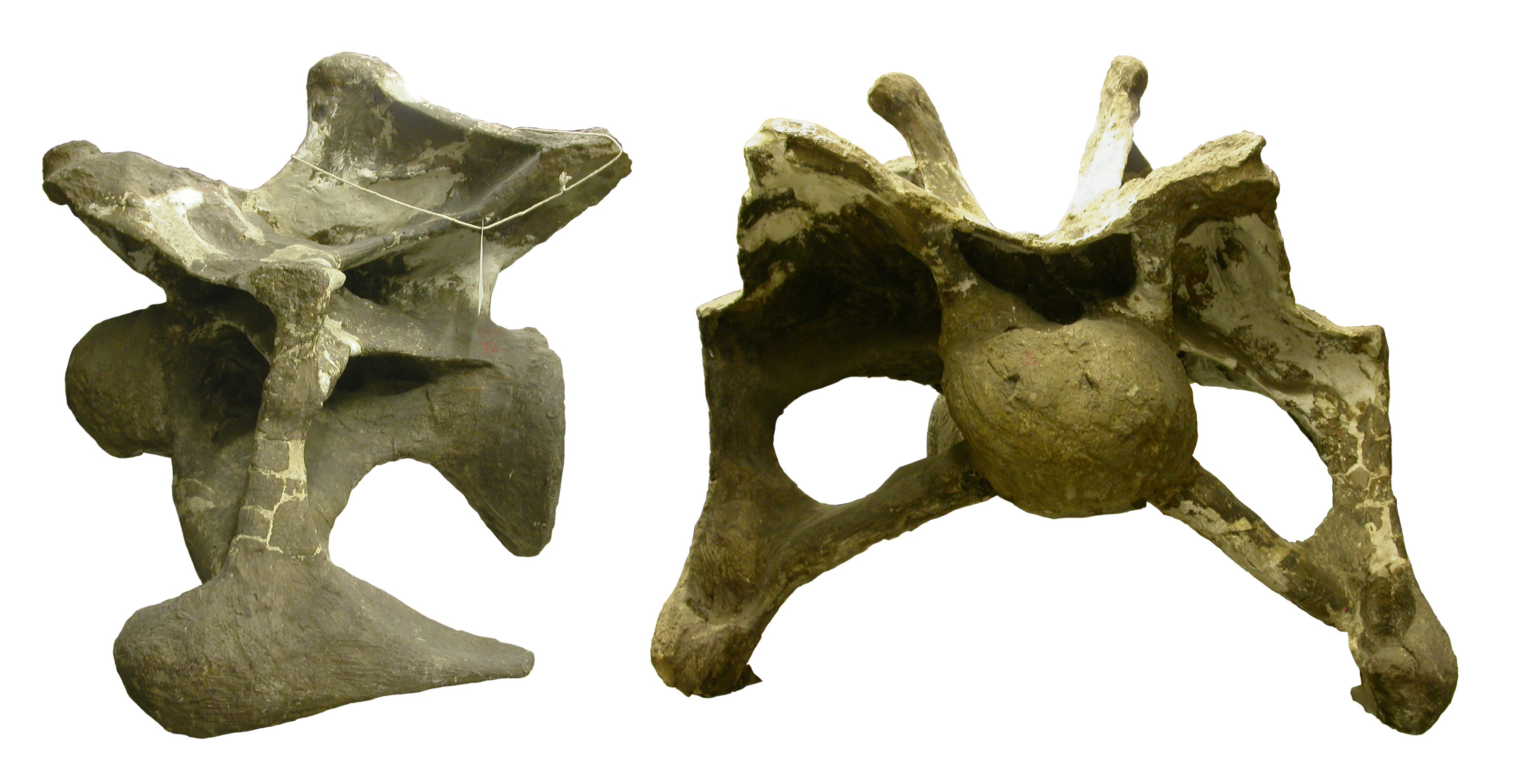 Holotype cervical of Apatosaurus ajax YPM 1860 in side (left) and front (right) views.